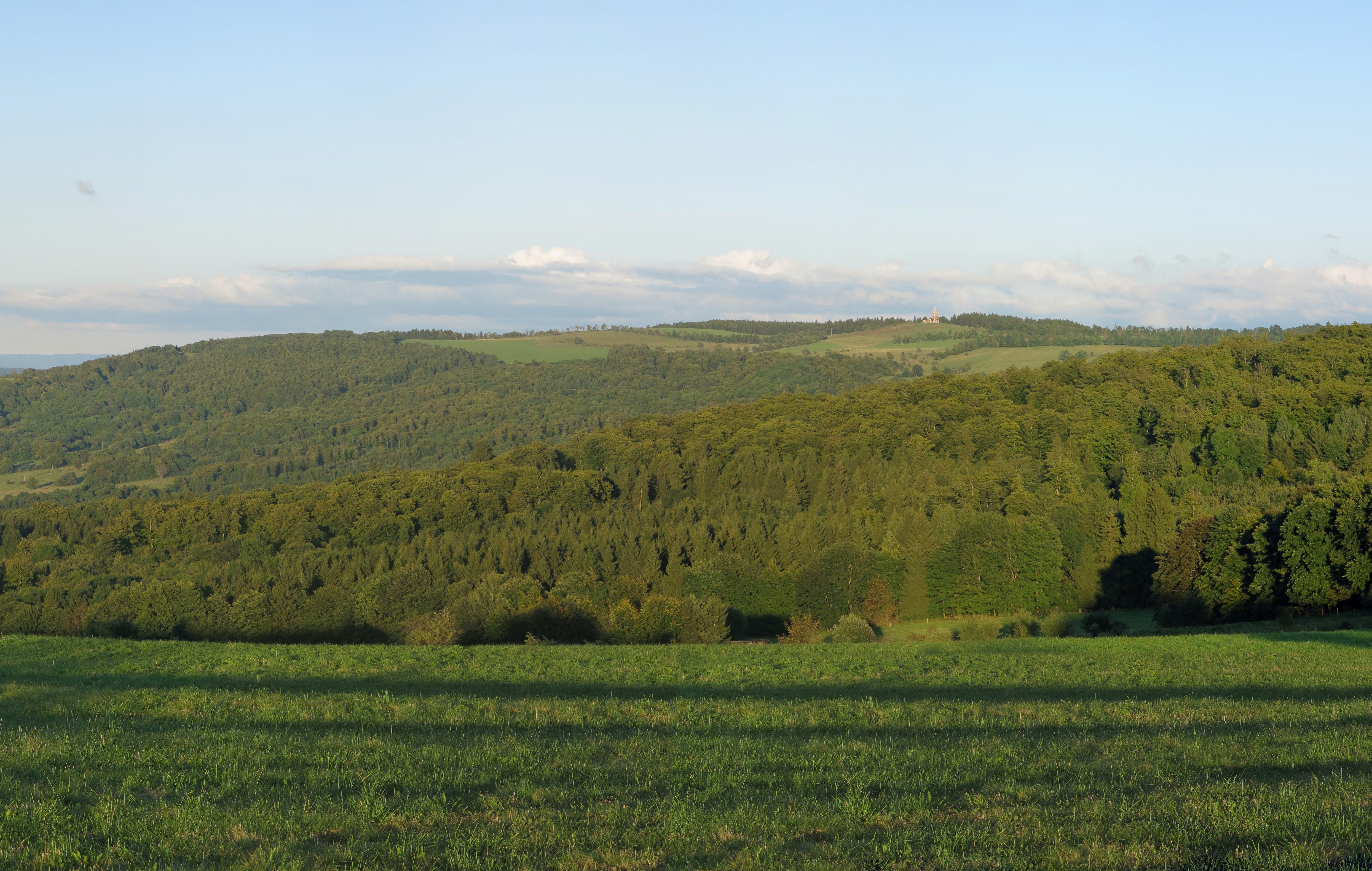 The Ellenbogen in the Rhön Mountains seen from west (Buchschirm) after completion of the lookout tower Noahs Segel.